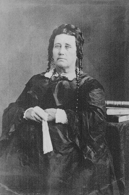 Description: Portrait of Susanna Dickinson (1814-1883) Source: Photo from McArdle collection at Texas State Library & Archives Commission. Date: Nineteenth century Author: Unknown photographer Permission: I verified with Preservation Officer John Anderson that the photo is public domain. He requested credit be noted for "Texas State Library & Archives Commission."